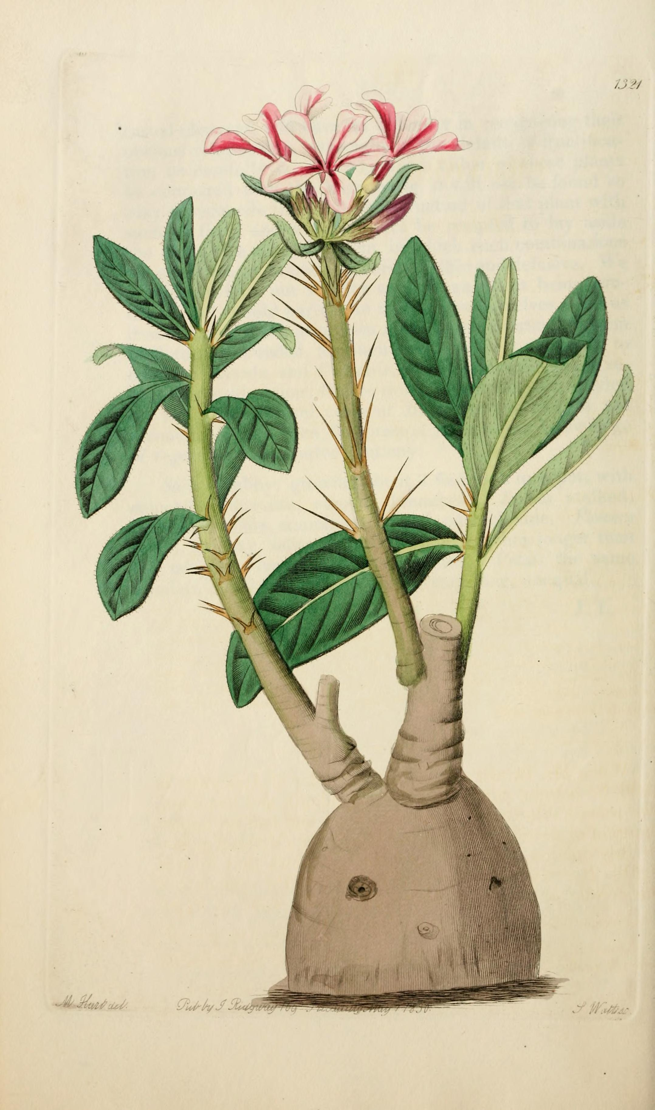 Title: Edwards' botanical register, or, Ornamental flower-garden and shrubbery .. Year: 1829-1847 (1820s) Authors: Edwards, Sydenham, 1769?-1819; Lindley, John, 1799-1865 Subjects: Plants, Ornamental -- Great Britain; Plants, Ornamental -- Great Britain; Plant introduction -- Great Britain; Alien plants -- Great Britain; Botanical illustration -- Great Britain; Botanical illustration -- Great Britain; Plants; Plants Publisher: London : James Ridgway Text Appearing Before Image: v-^j Text Appearing After Image: -^'ll-^tUZ/'j^-i .'W-'/v^ J'W_'- y Pl\tU-^